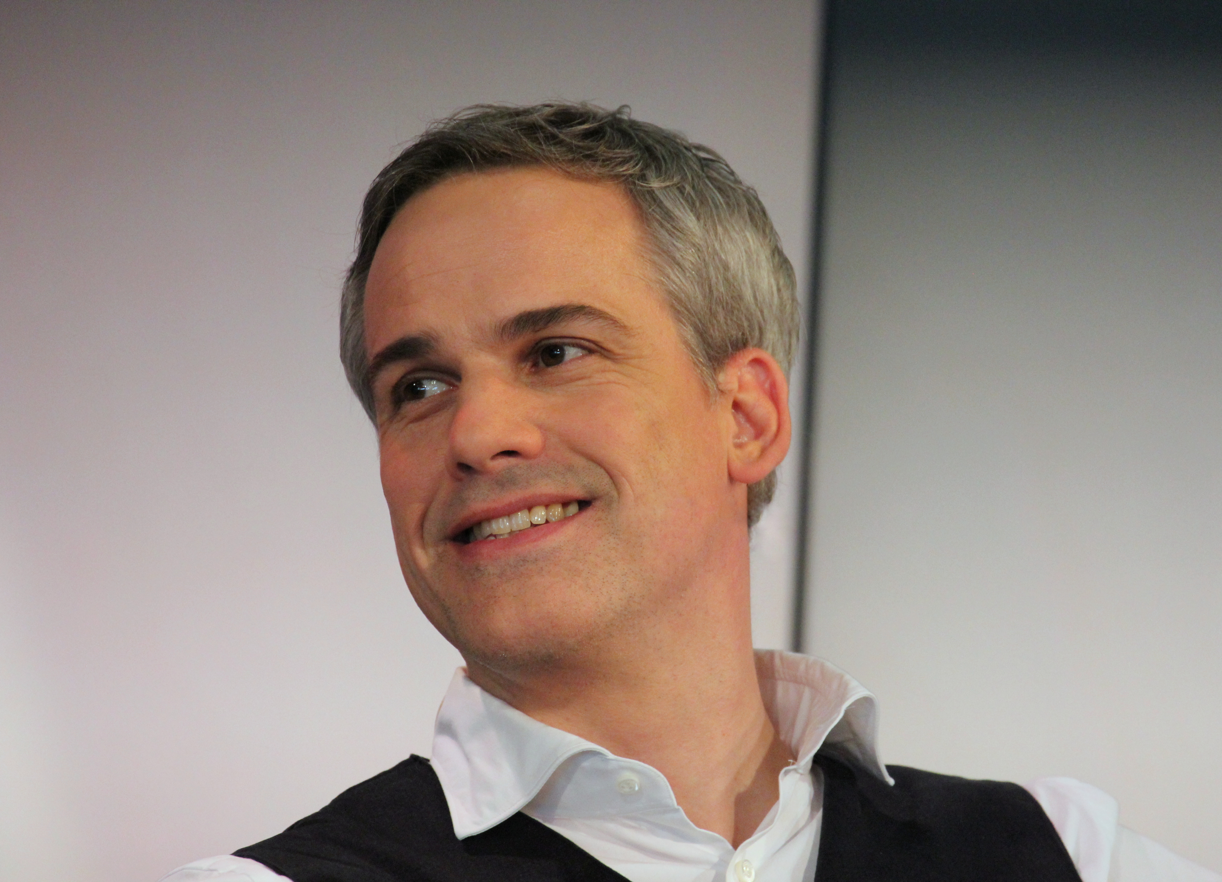 Stephan Thome Frankfurt Book Fair 2018